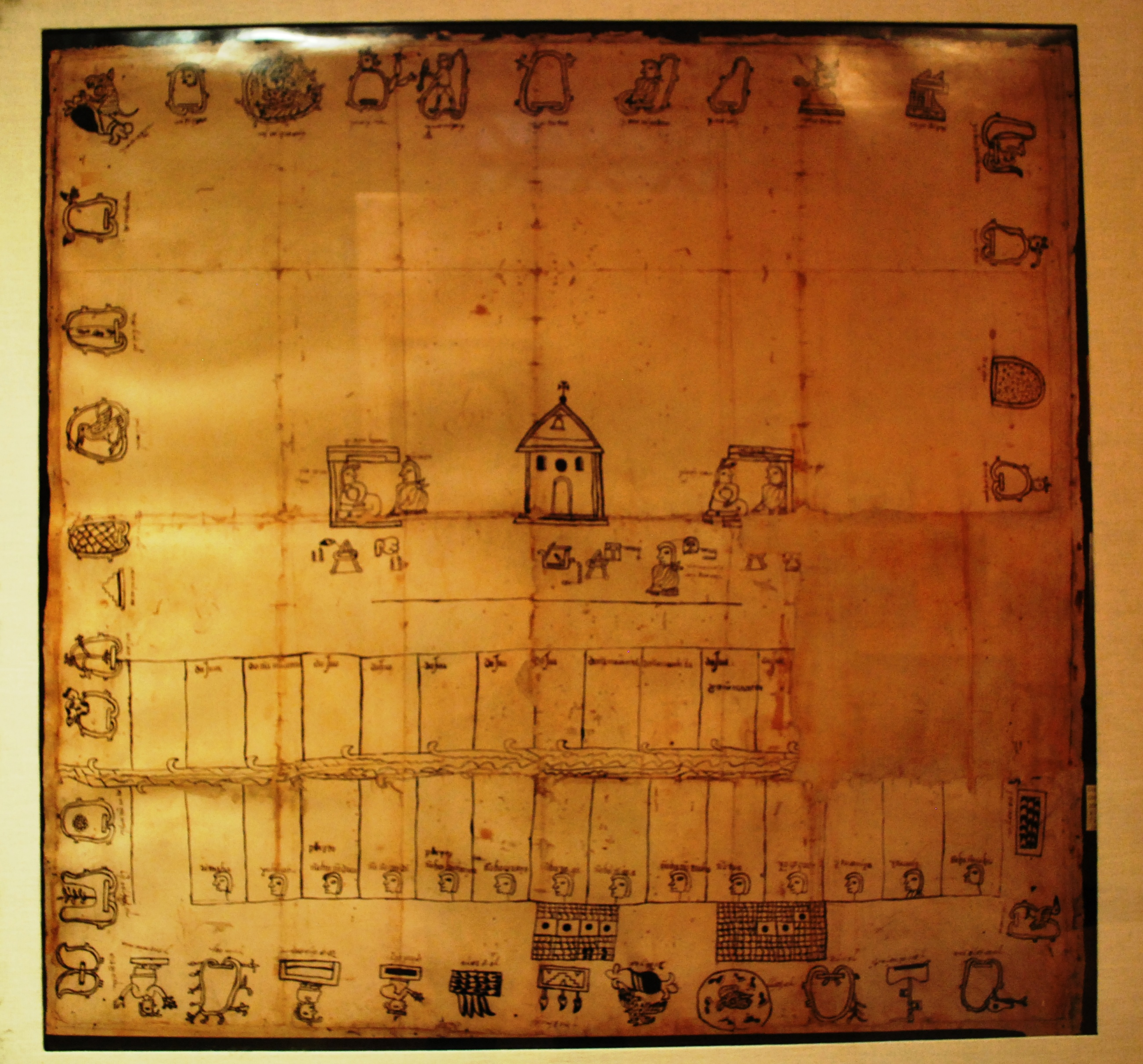 36 Codex Huajuapan of the 16th century showing the legitimacy of the Don Juan and Doña Margaritas as chiefs of the area. On display at the Regional Museum of Huajuapan in Huajuapan, Oaxaca